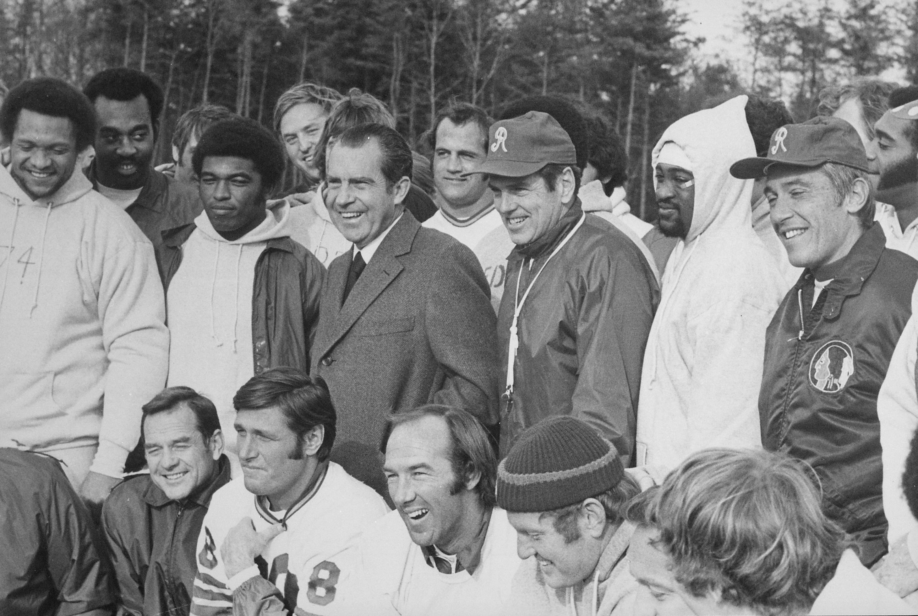 Scope and content: Pictured: Richard M. Nixon, George Allen, Sonny Jurgensen. Subject: Sports.